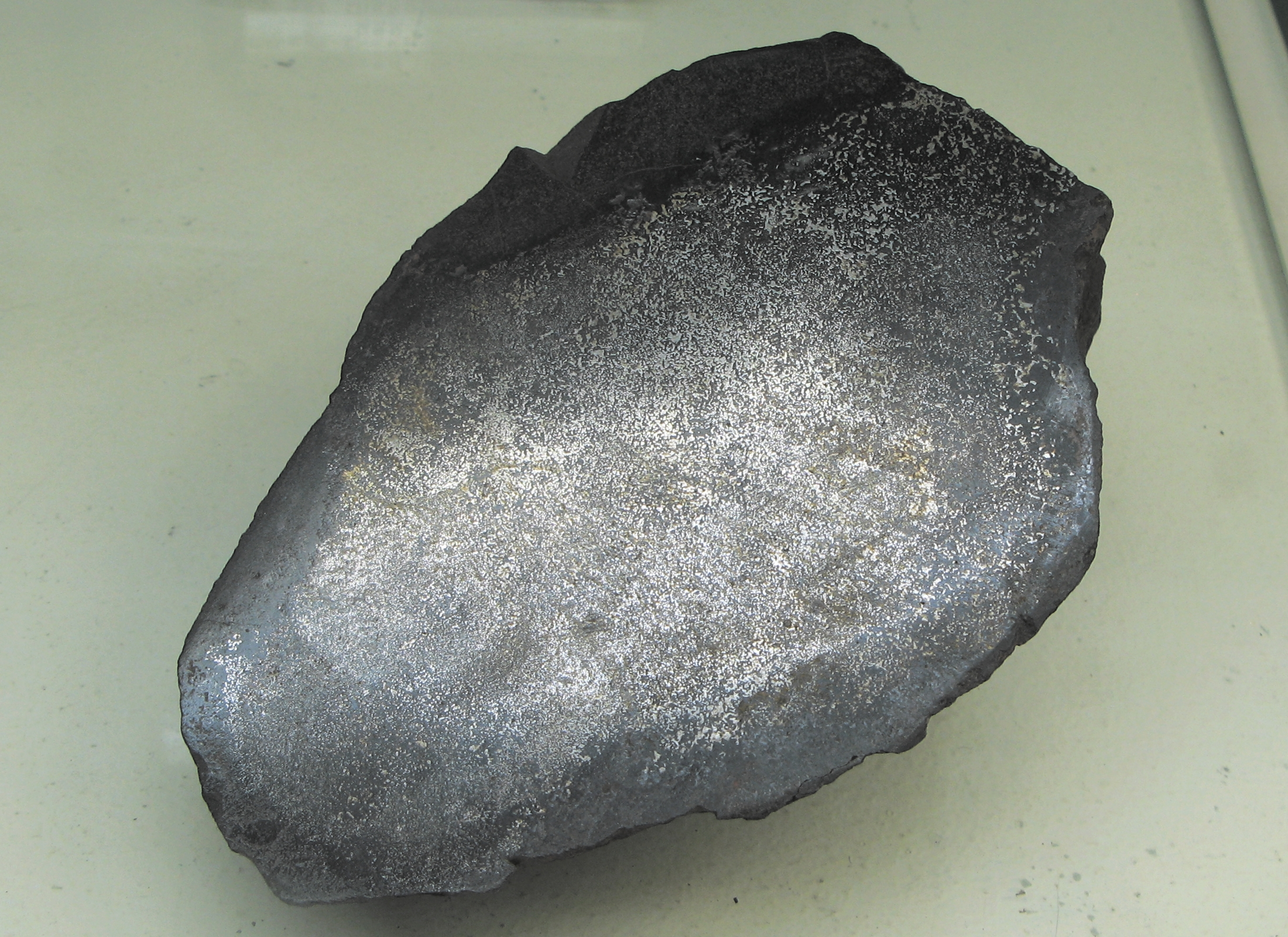 native Iron in Basalt - Locality: Bühl bei Kassel (Germany) - Exposed in the Mineralogical Museum, Bonn, Germany